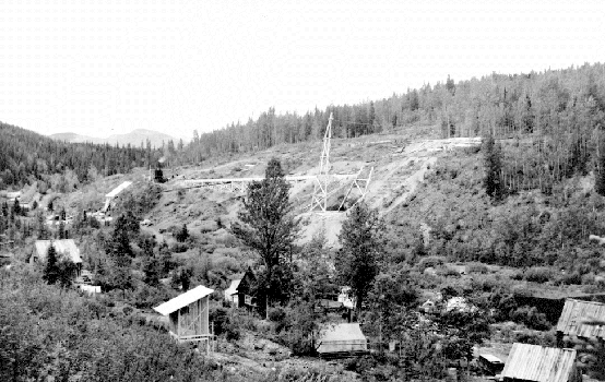 Photo taken 1933 Photograper Unknown BC Archives #G-00842 [1]